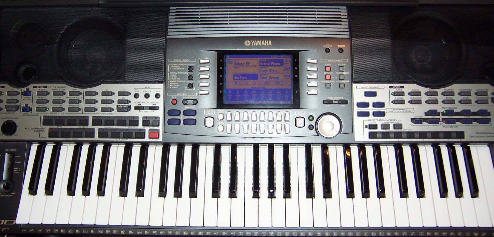 Yamaha PSR 9000 Arranger Workstation